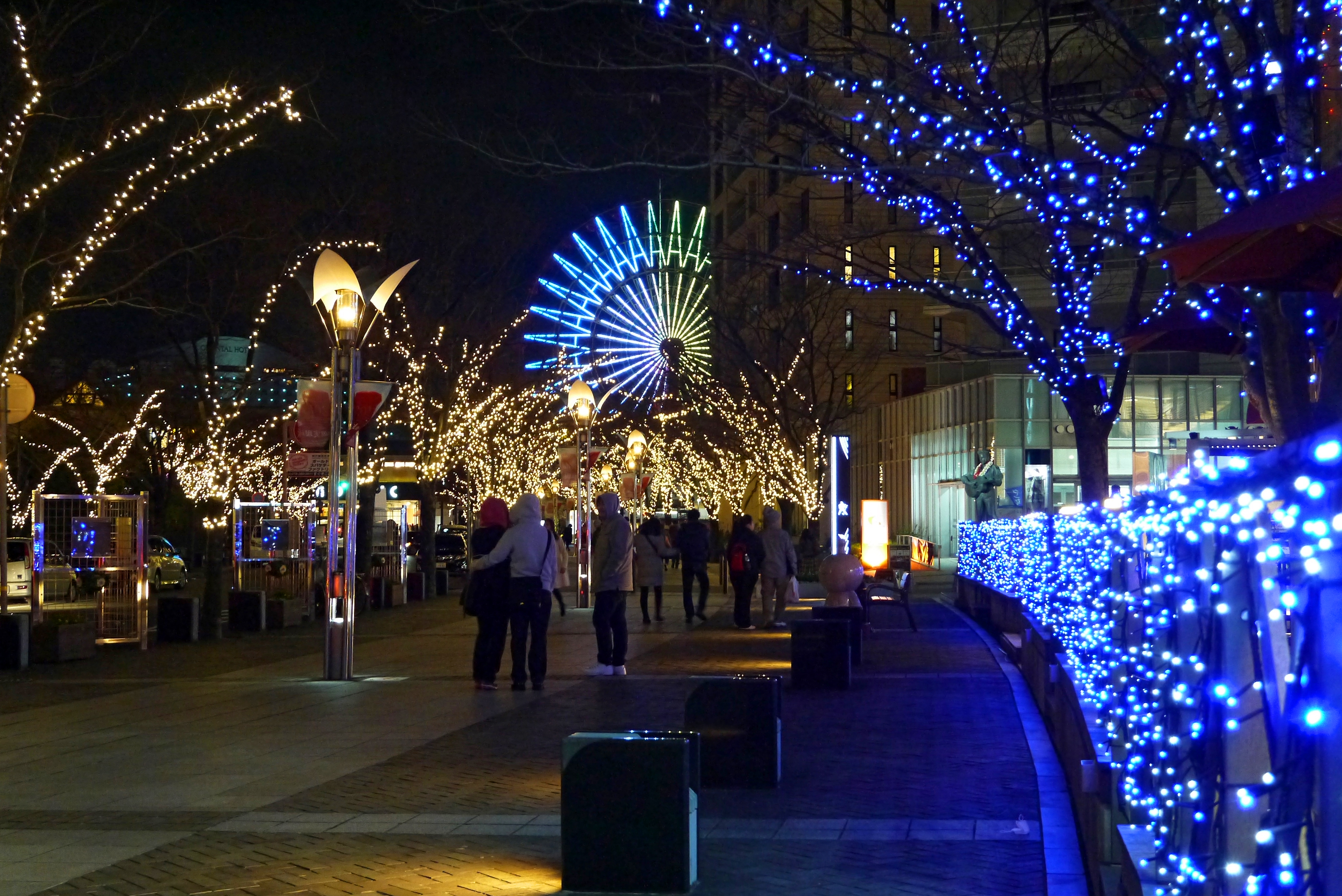 Harborland (ハーバーランド), Kobe, Hyogo prefecture, Japan